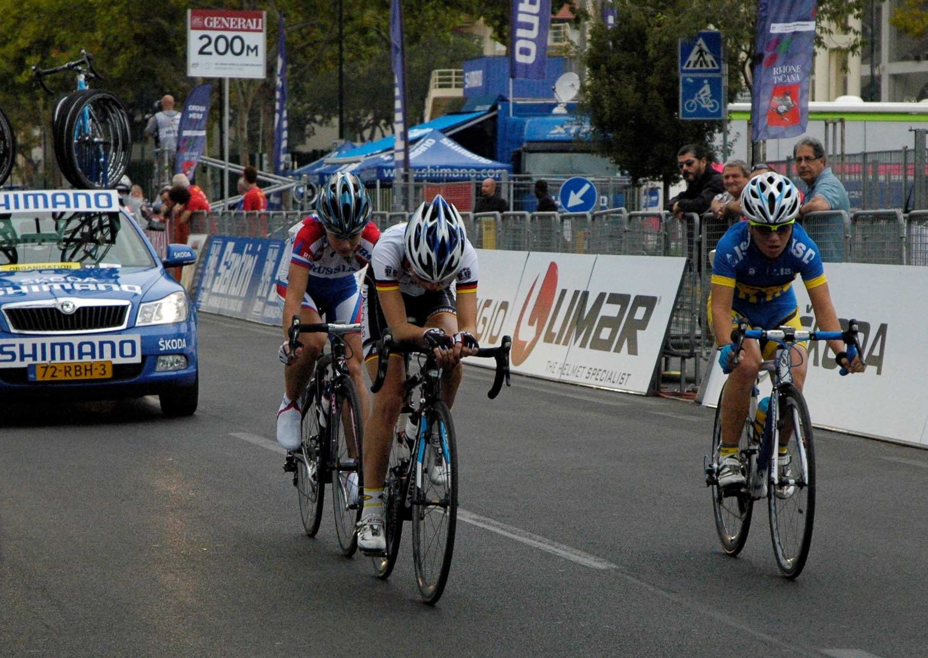 2013 UCI Road World Championships, Front group (lap 1)